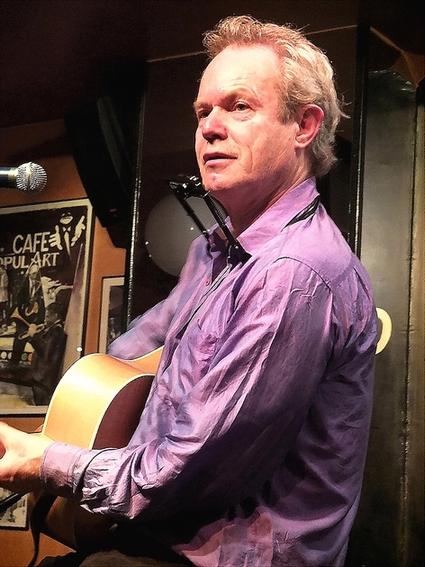 Live at "Café Populart", Madrid (Spain), 20th January 2013